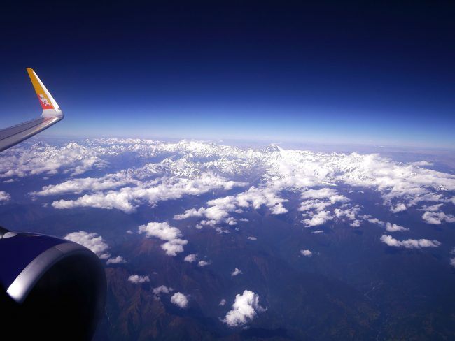 The Himalayas when flying from Delhi to Paro airport